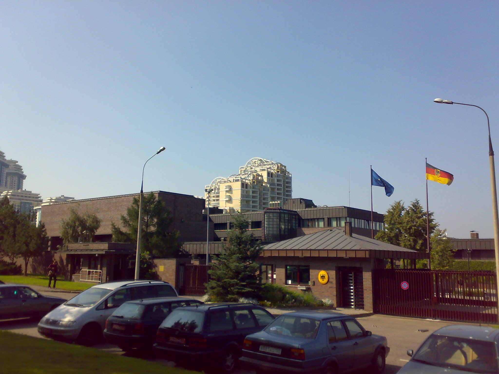 took this image using my mobile phone, on 4 September, 2008. The embassy of Germany, Mosfilmovskaya Street, Moscow.